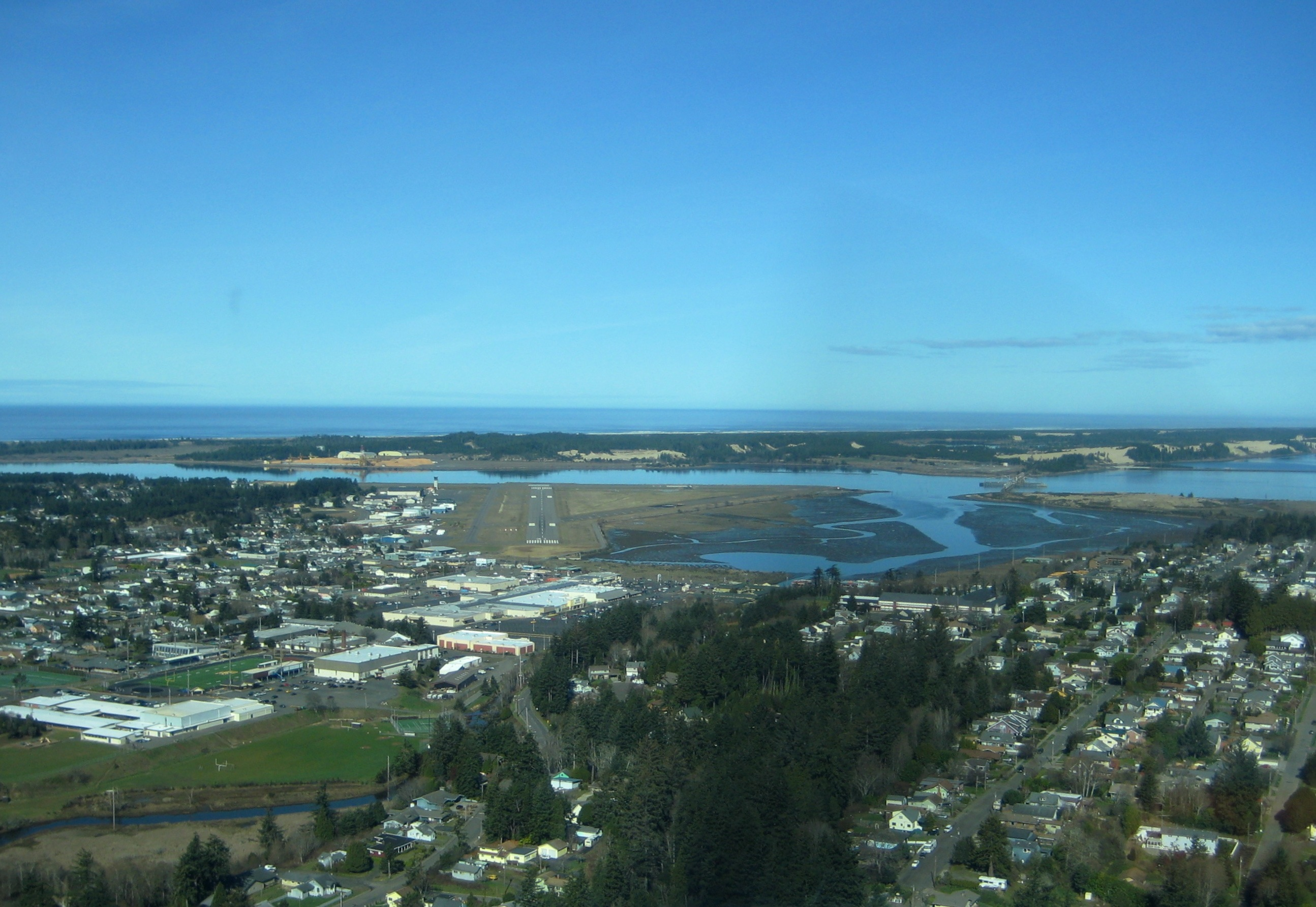 An aerial view of Coos Bay (the mouth of the Coos River) and North Bend, Oregon